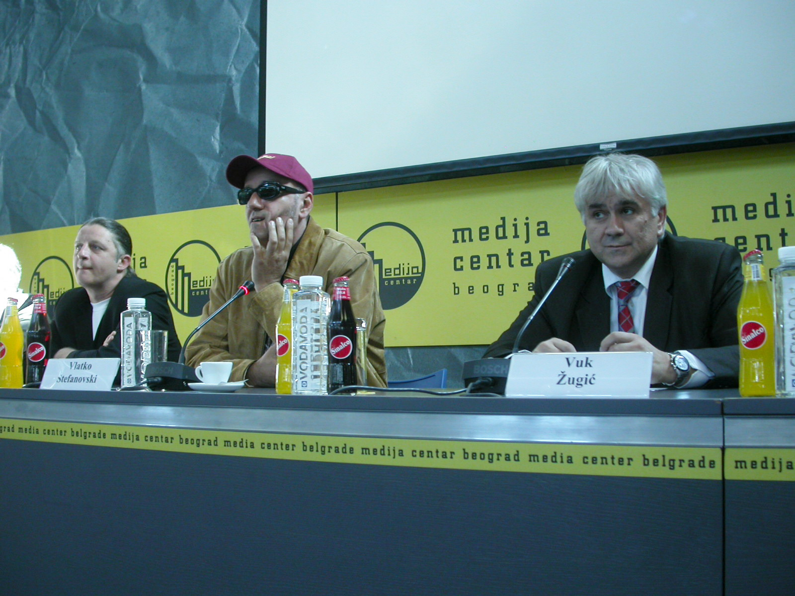 Leb i Sol - Vlatko Stefanovski (center) and Bodan Arsovski (first from left)